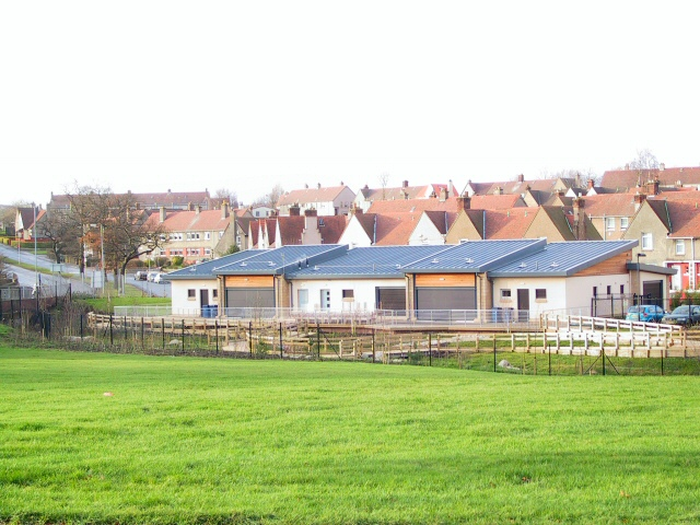 Spittal Estate. View of new units below Spittal Estate, looking from the junction at Blairbeth Road.